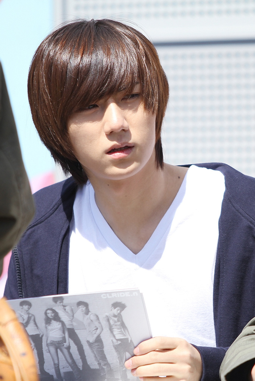 Hyunseung on March 25, 2011.